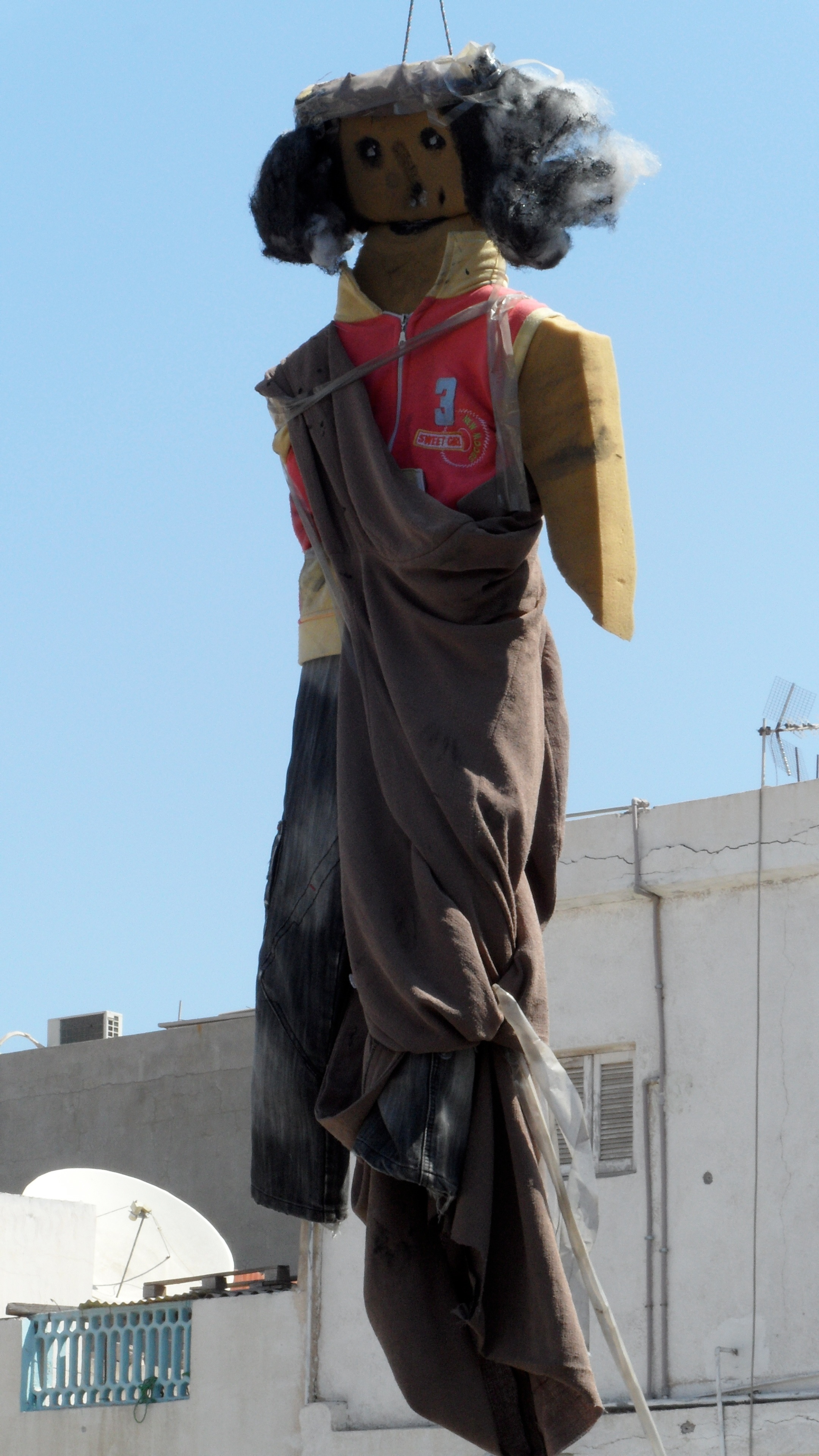 Gaddafi caricature in Tripoli